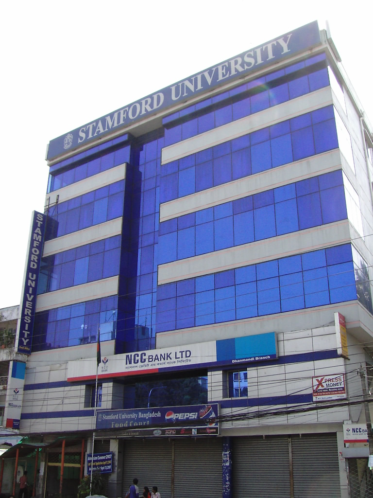 Stamford University (Dhanmondi campus)